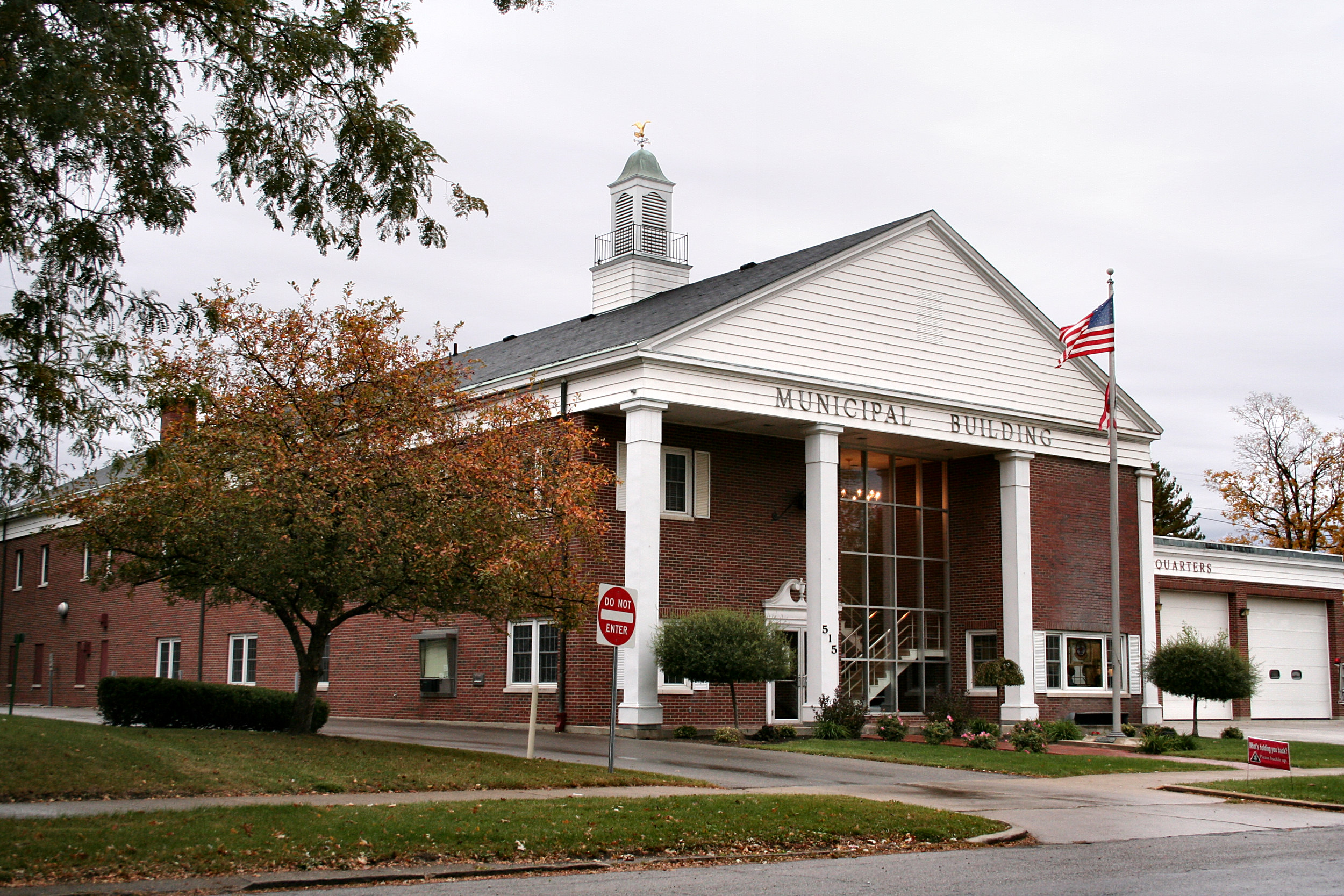 Van Wert, Ohio municipal building. Photo shot by Derek Jensen (Tysto), 2005-October-20